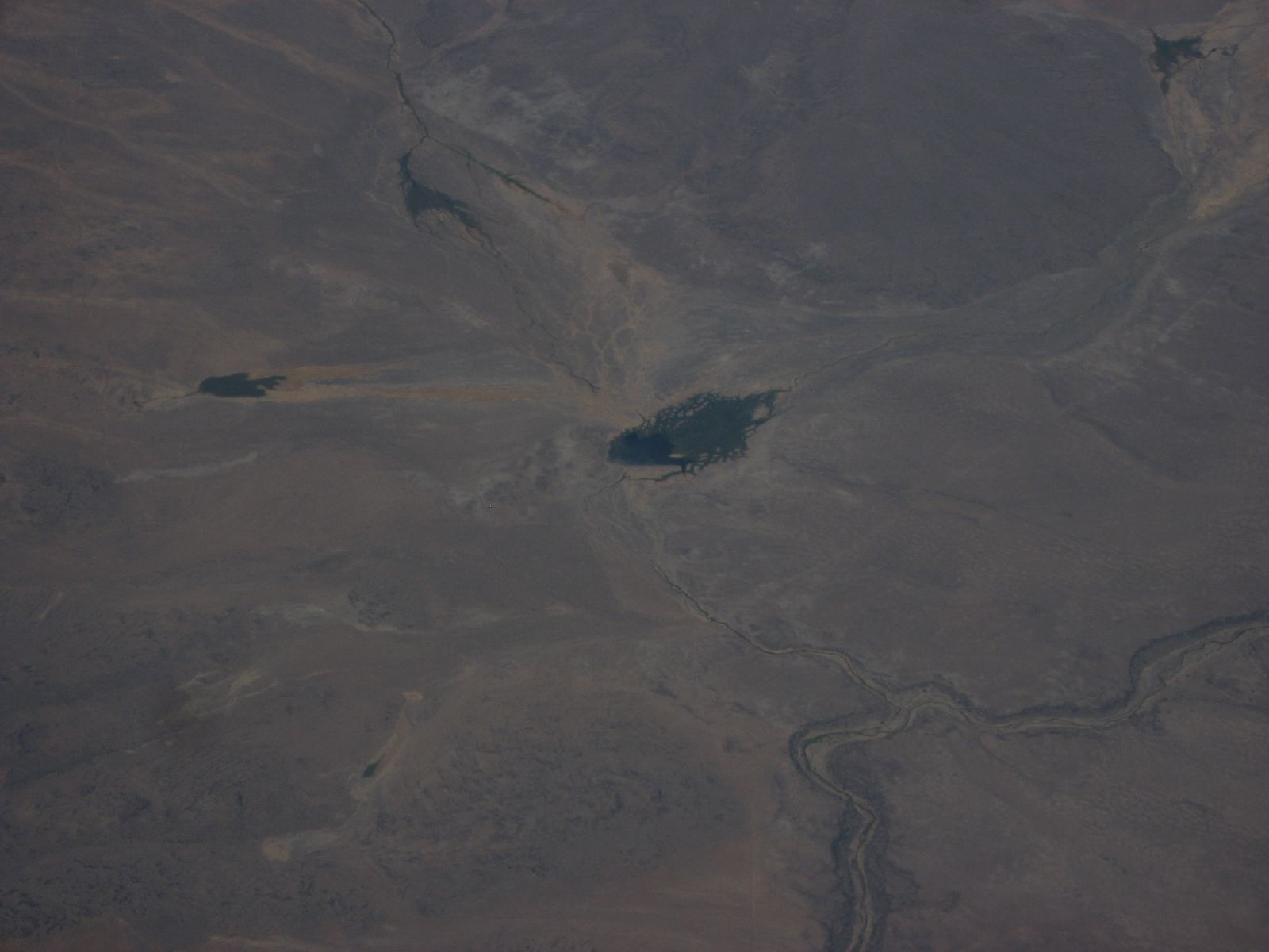 This is a well-watered spring area just off of Smoke Creek in far-eastern California near the Nevada border.